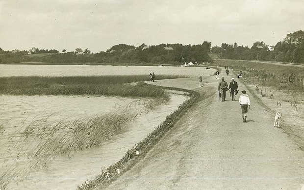 Søpromenaden at Lyngby Sø in Lyngby, Denmark